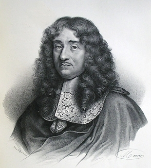 Pierre-Paul Riquet (1604/1609-1680)